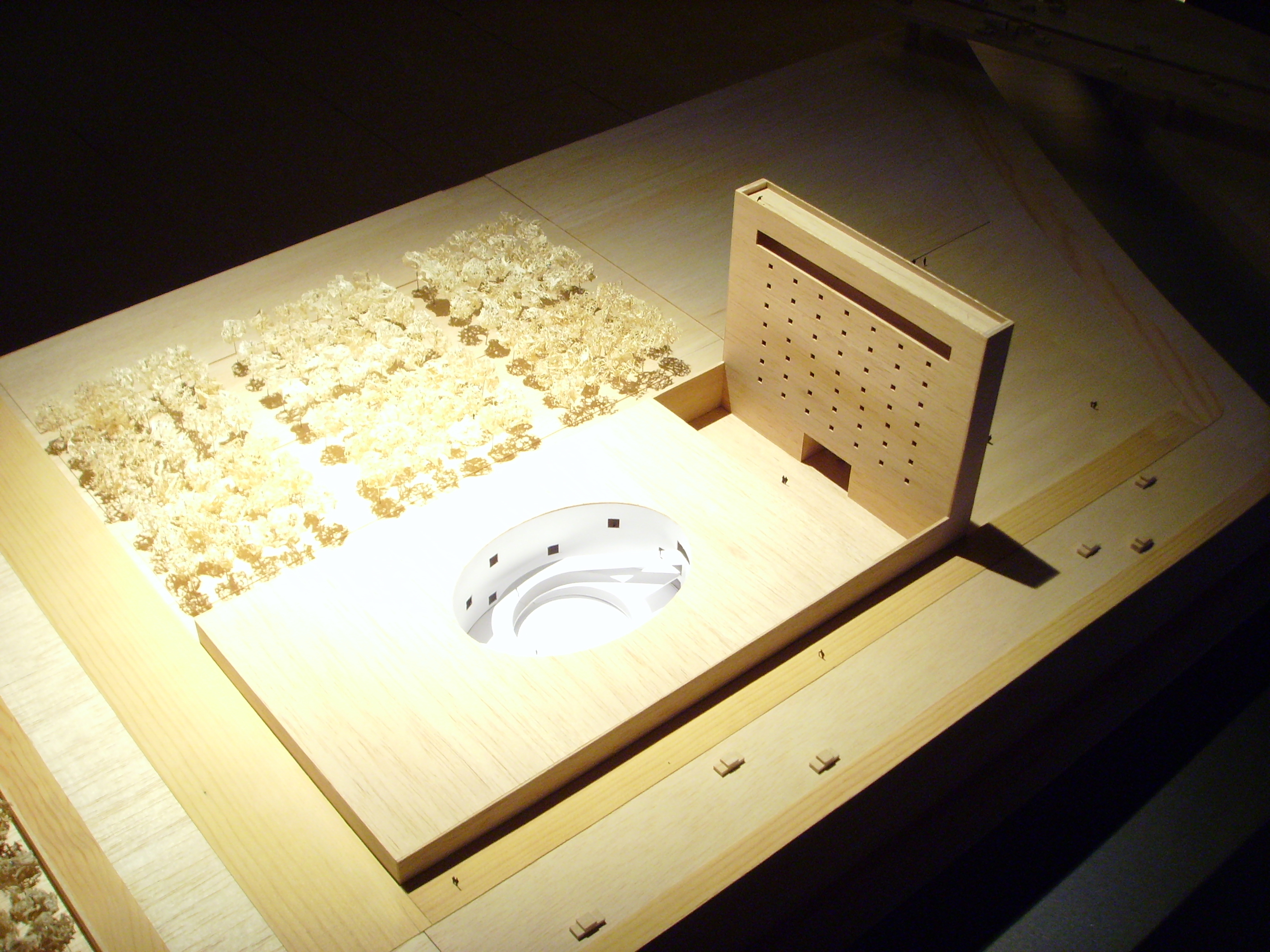 Building model of the proyect for a museum in Granada by architect Alberto Campo Baeza. "ON-SITE New architecture in Spain" an exhibition of the MoMa at the Royal Botanical Garden, Madrid.